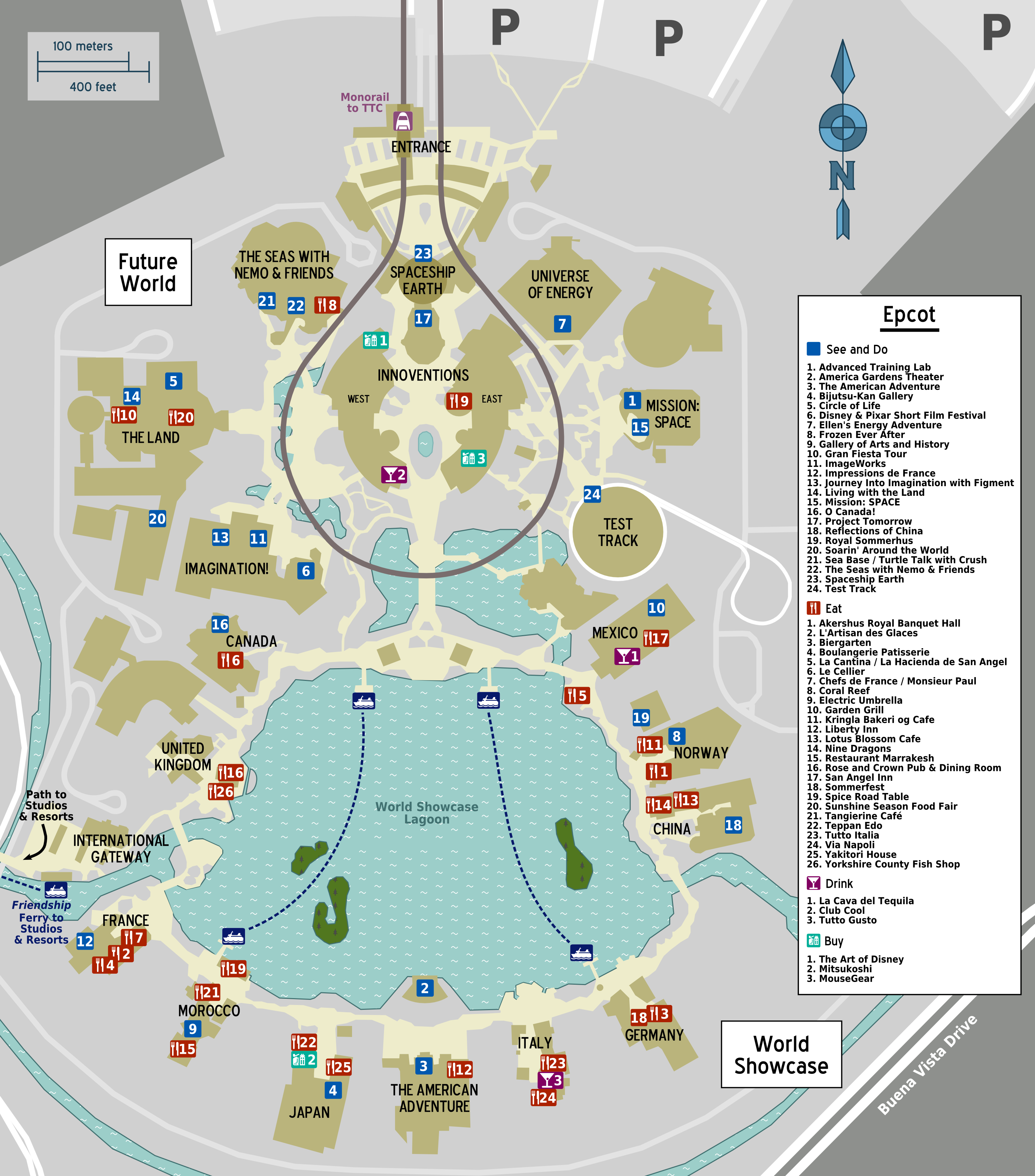 Epcot. Map of Epcot at Walt Disney World in Florida., Lake Buena Vista Map of: Florida¤